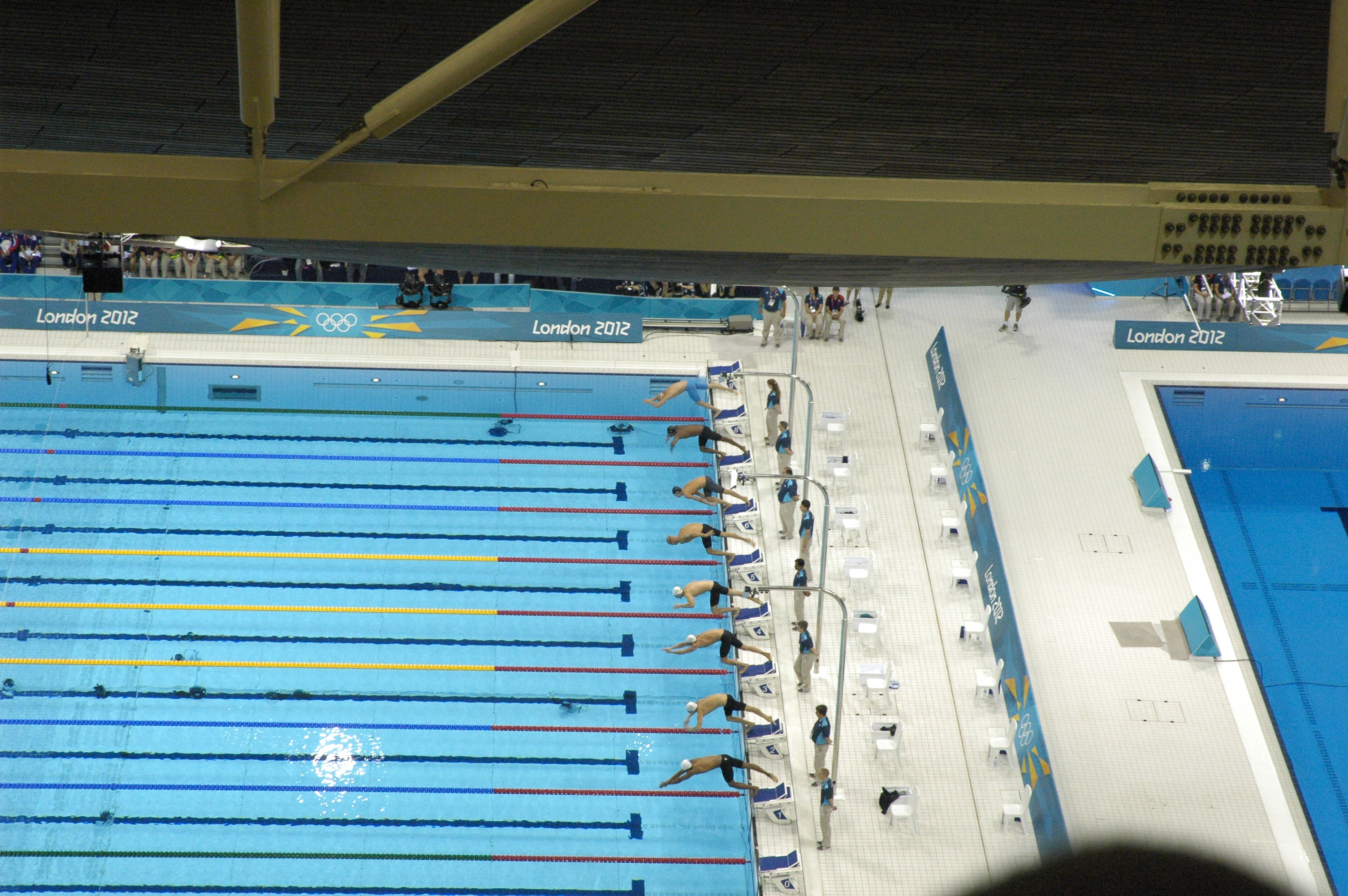 Swimming at the 2012 Summer Olympics, Men's 100m Freestyle heat 8